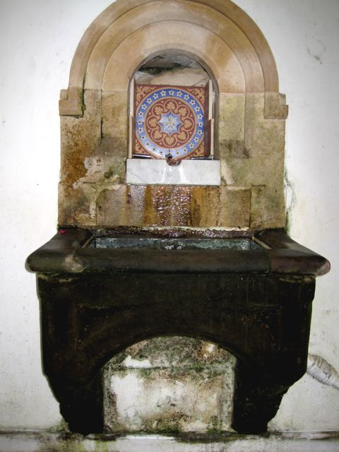 Photo: Holy Well spring, Malvern Wells, Malvern